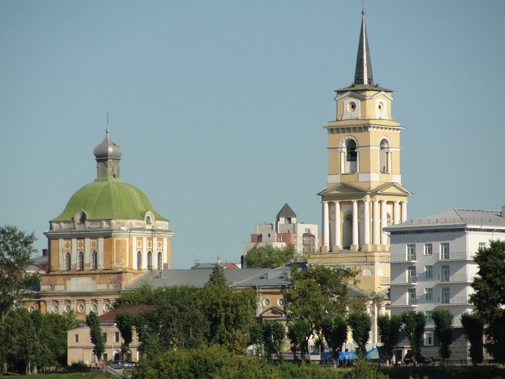 Perm Art Gallery. View from Kama river